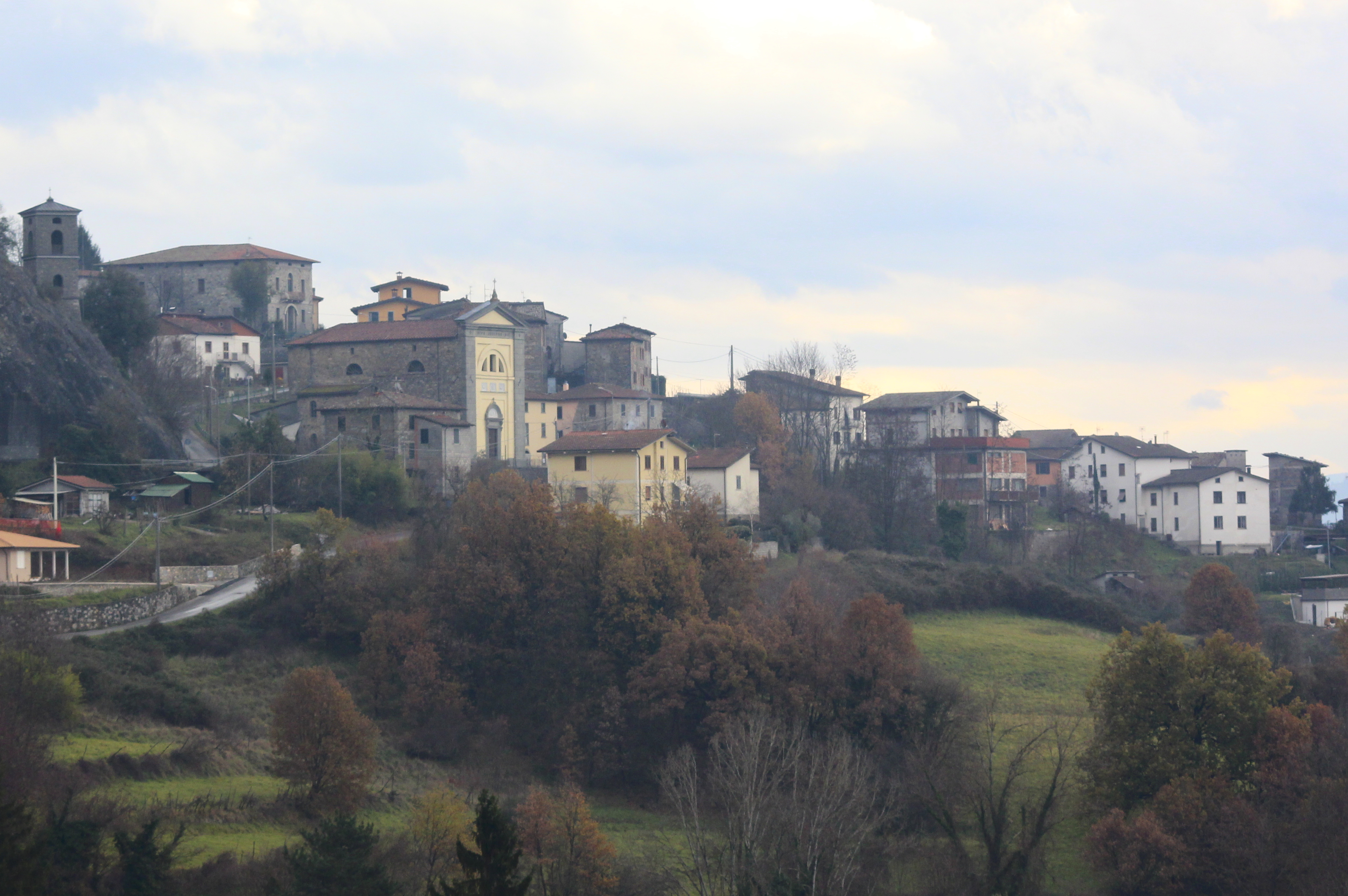 Panorama of Villetta, hamlet of San Romano in Garfagnana, Alta Garfagnana, Province of Lucca, Tuscany, Italy